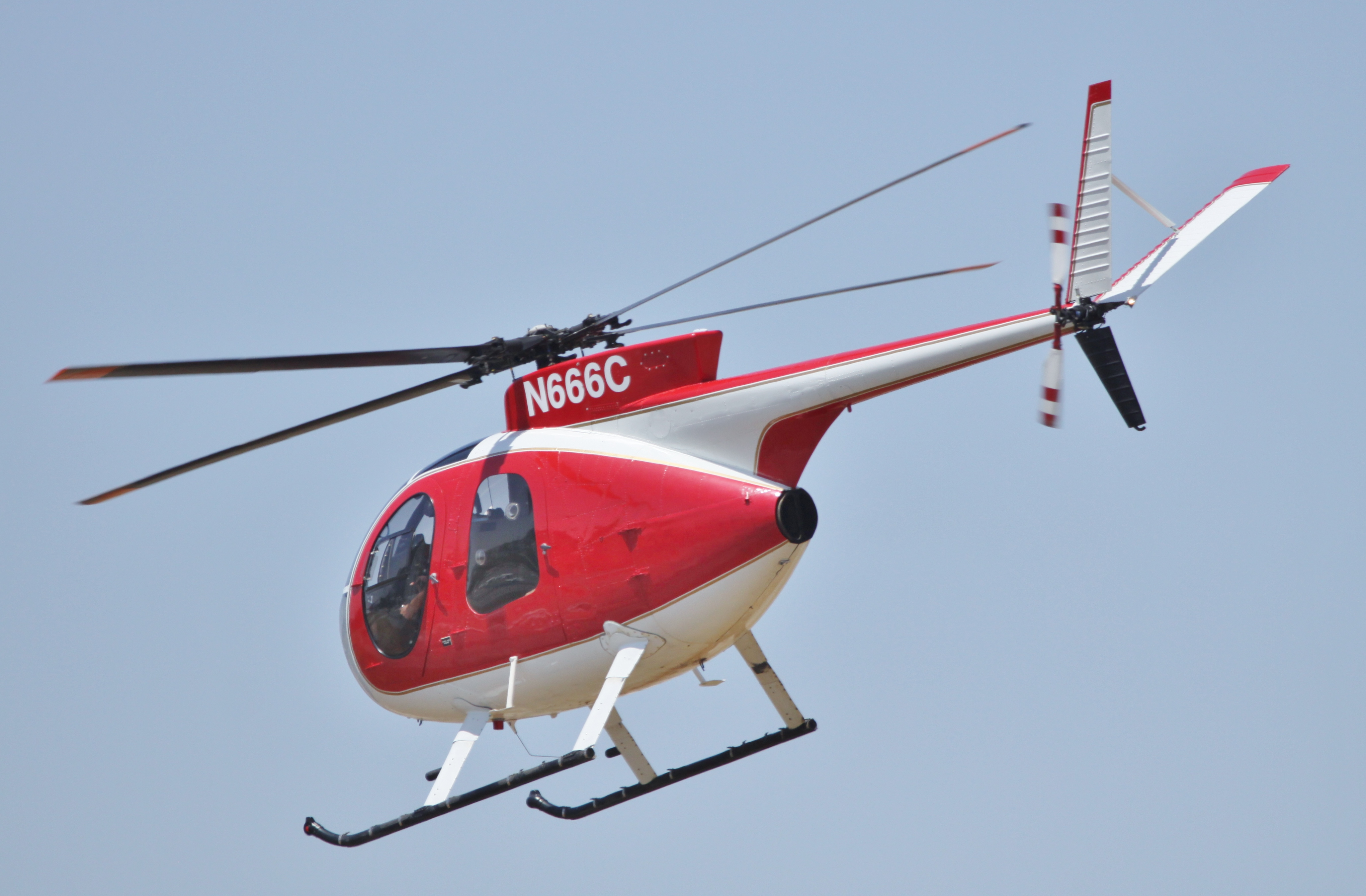 Hughes 369, at Long Beach